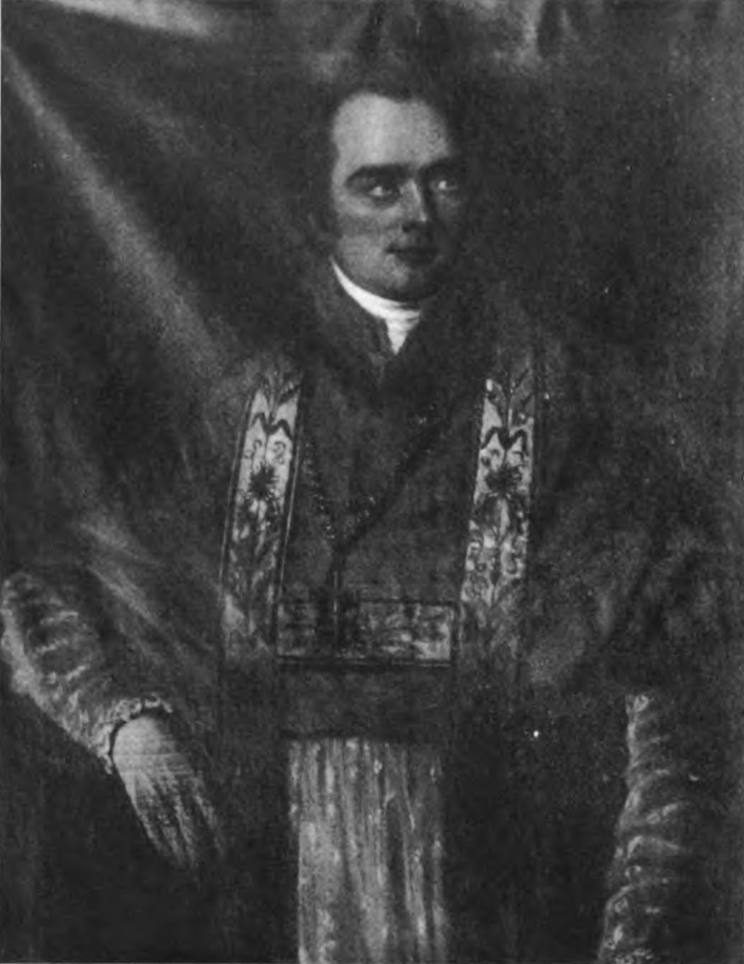 An image of John D. England taken from a 1914 publication entitled "The Catholic Church in the United States of America: Undertaken to Celebrate the Golden Jubilee of His Holiness, Pope Pius X, Volume 3." The photograph is found on page 124.